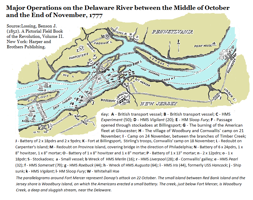 Map showing British operations in the Delaware River during the American Revolutionary War, between mid October and end of November 1777